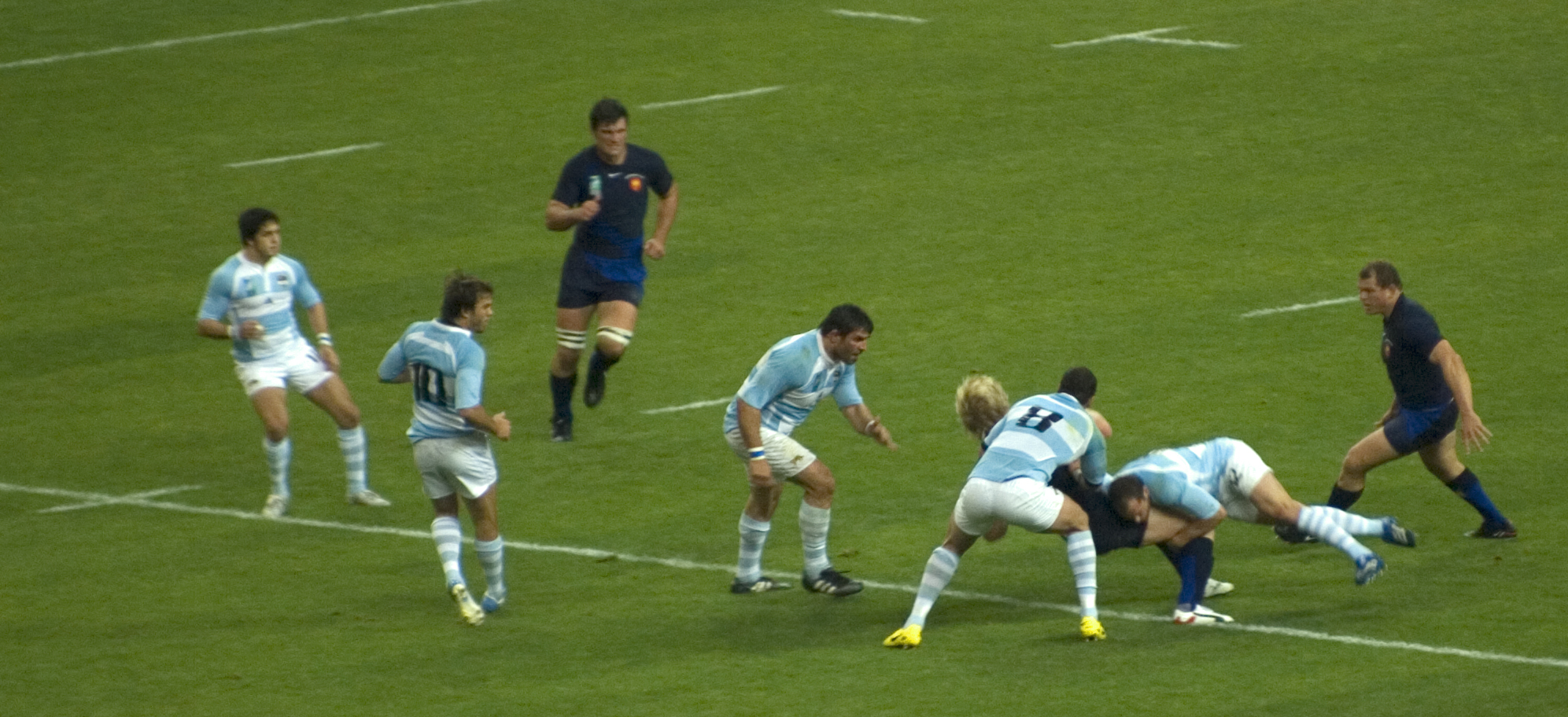 France - Argentina Rugby World Cup 2007 Paris. Stade de France